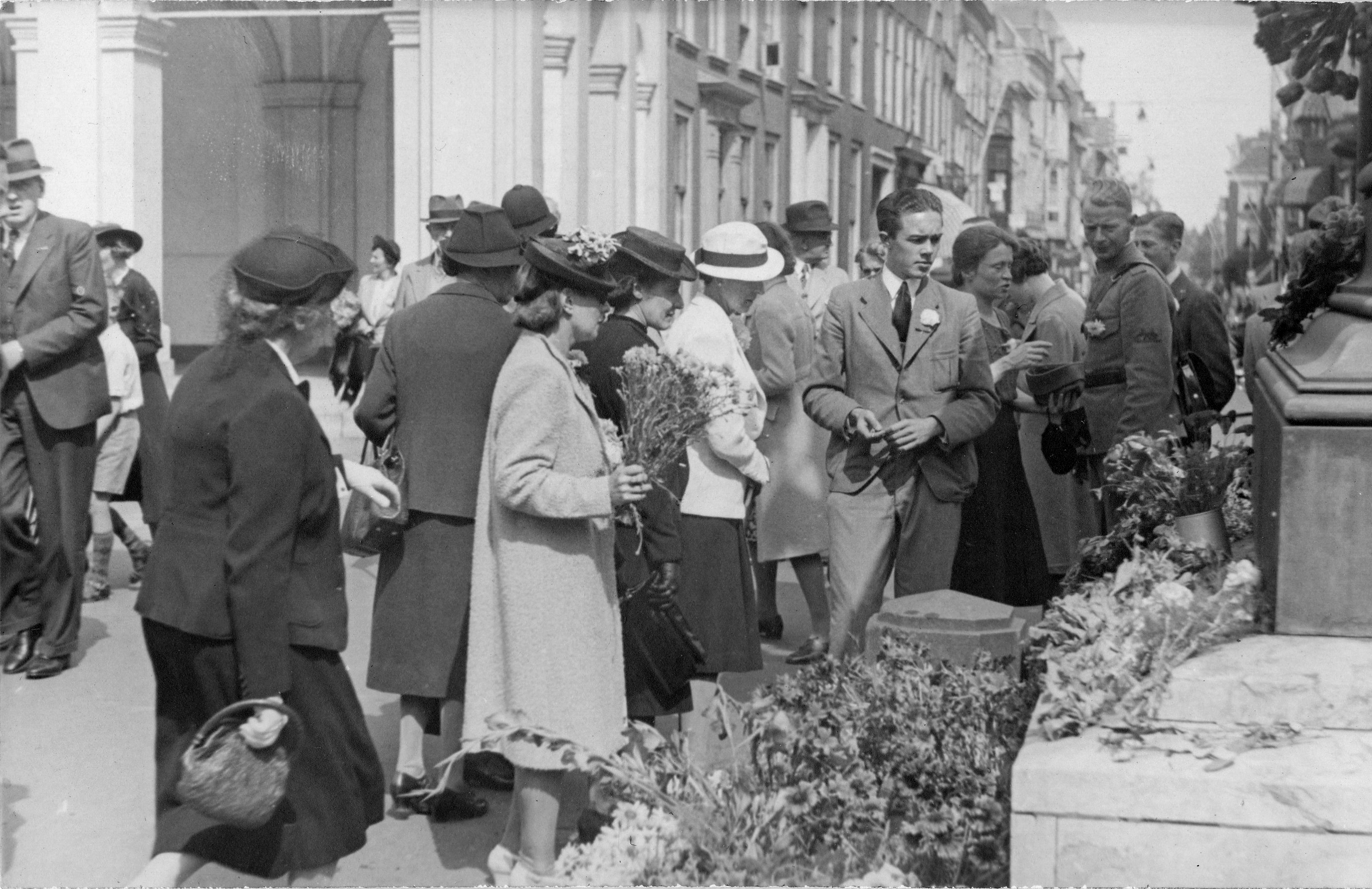 'Carnation Day' on June 29, 1940, at Noordeinde Palace in The Hague. As an act of resistance civilians lay flowers at the statue of William the Silent, on the birthday of Prince Prince Bernhard of Lippe-Biesterfeld, the husband of Princess Juliana of the Netherlands.